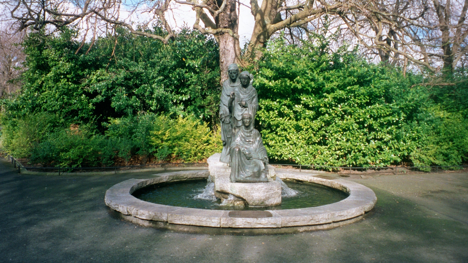 A gift from Germany to Ireland, St.Stephens Green, Dublin.